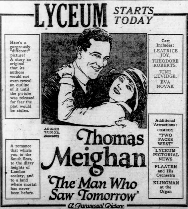 Newspaper advertisement for the American film The Man Who Saw Tomorrow (1922) with Thomas Meighan and Leatrice Joy, on page 16 of the November 18, 1922 Duluth Herald.